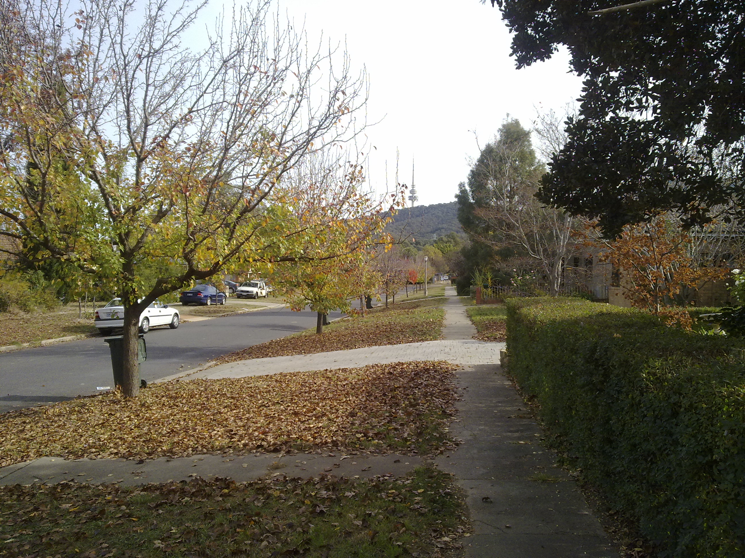 Looking west up Hardman Street, in O'Connor, ACT.